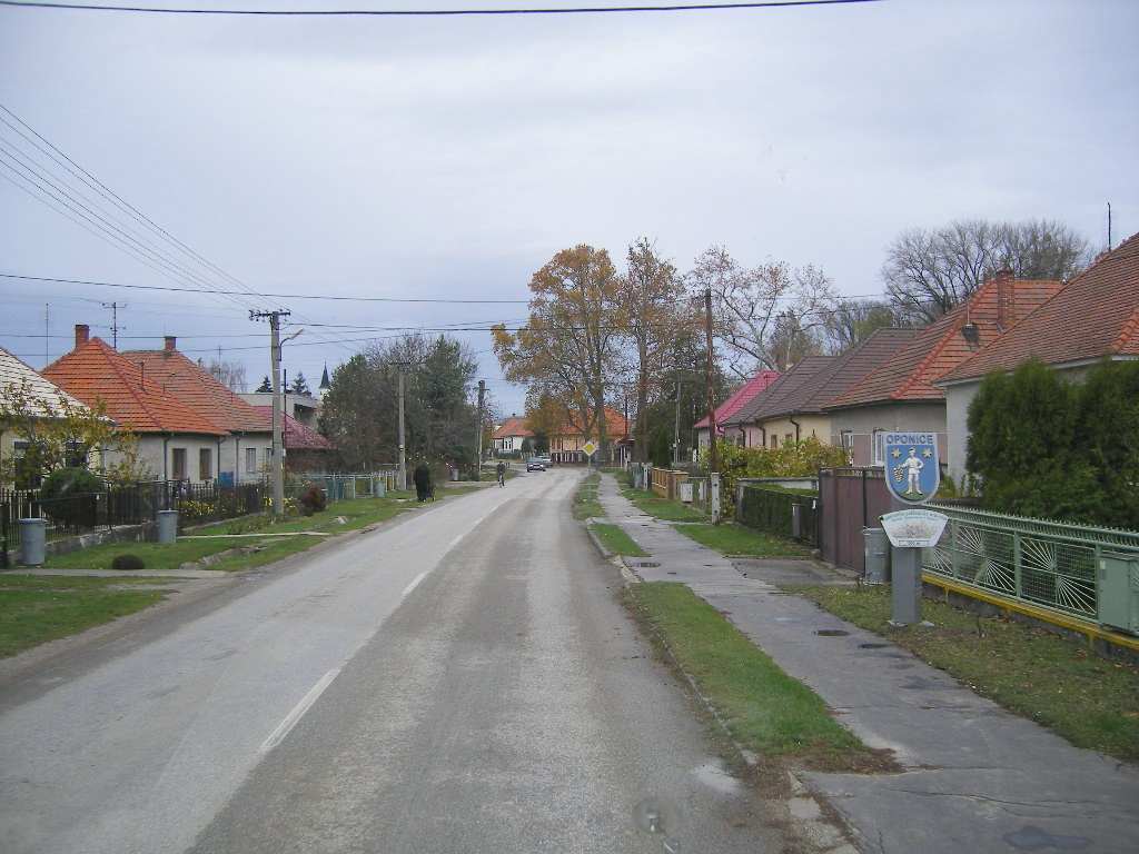 Oponice